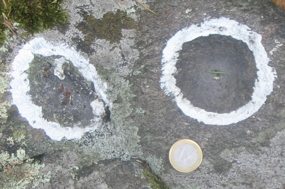 "Sacrifice stone" on Danielsberg, Austria. Photo taken on August 1, 2006. Photo by User:Jarlhelm